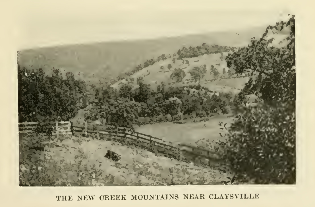 Photograph of New Creek Mountains near Claysville, WV, that appeared in Baltimore & Ohio Railroad Company's Book of the Royal Blue, October 1908, Vol. 12 No. 01, Page 11